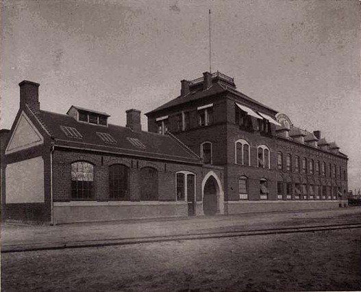 Nordisk Cyclefabrik, Danish factory est. 1896 in Københavns Frihavn producing bicycles.